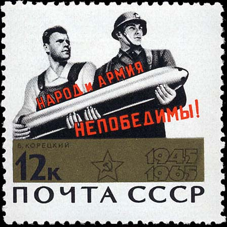 Soviet postage stamp of 1965 with the poster "People and Army are Invinsible!" by V. Koretski